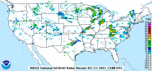 NOAA mosaic radar at 2308 UTC (5:08 PM) during the 2011 Joplin tornado.